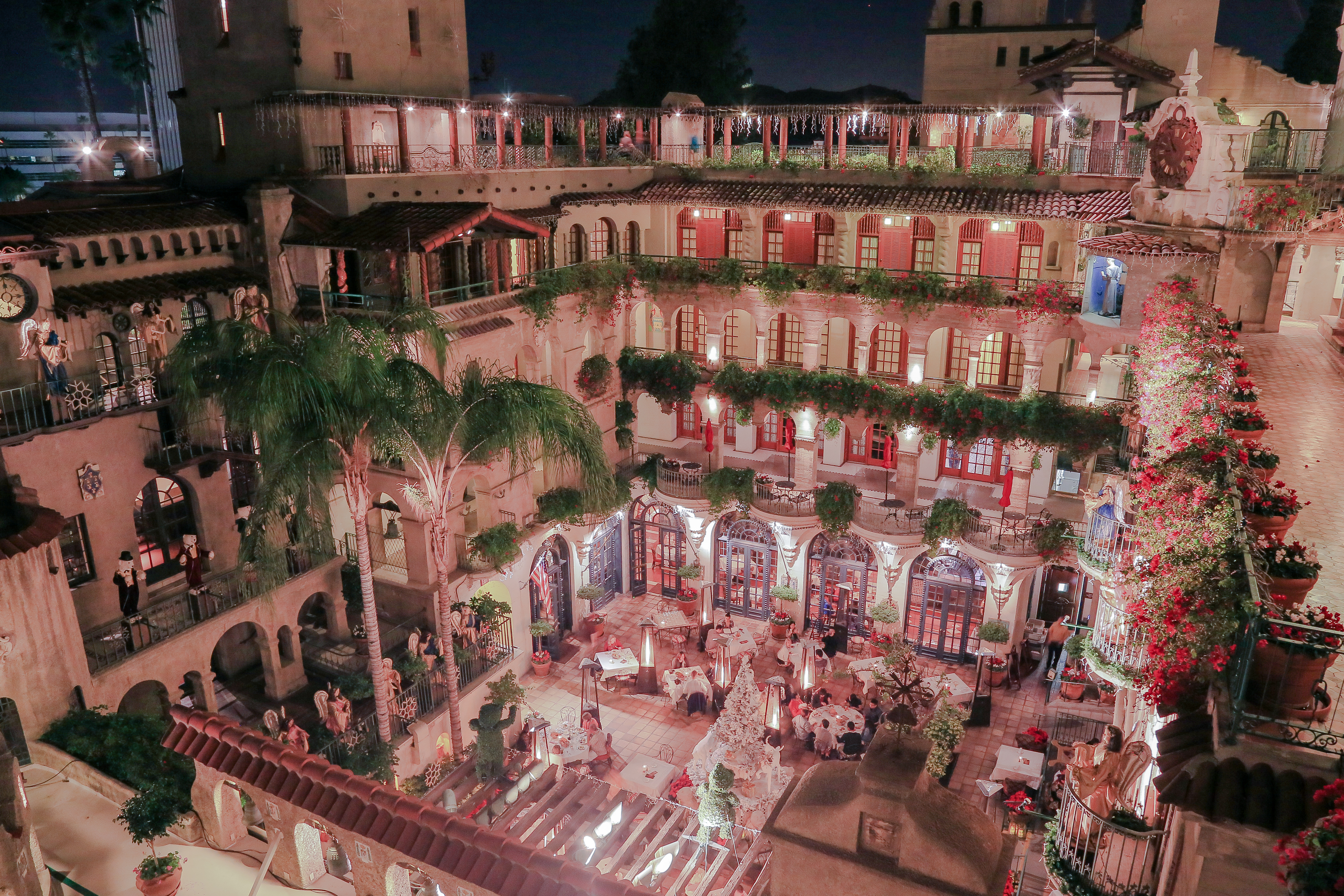 Mission Inn's grandeur on display during the "Festival of Lights"